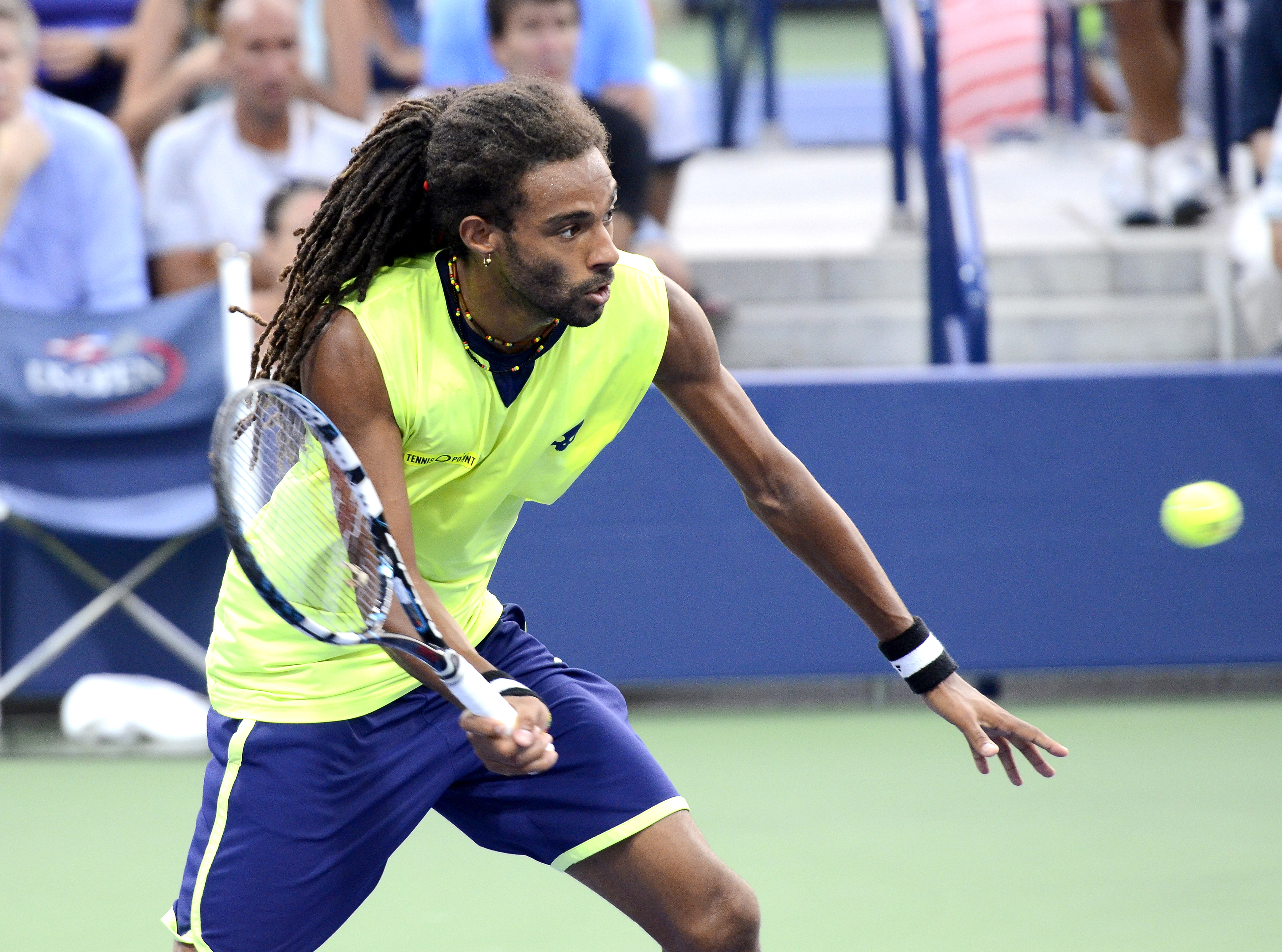 August 26, 2014 Queens, NY